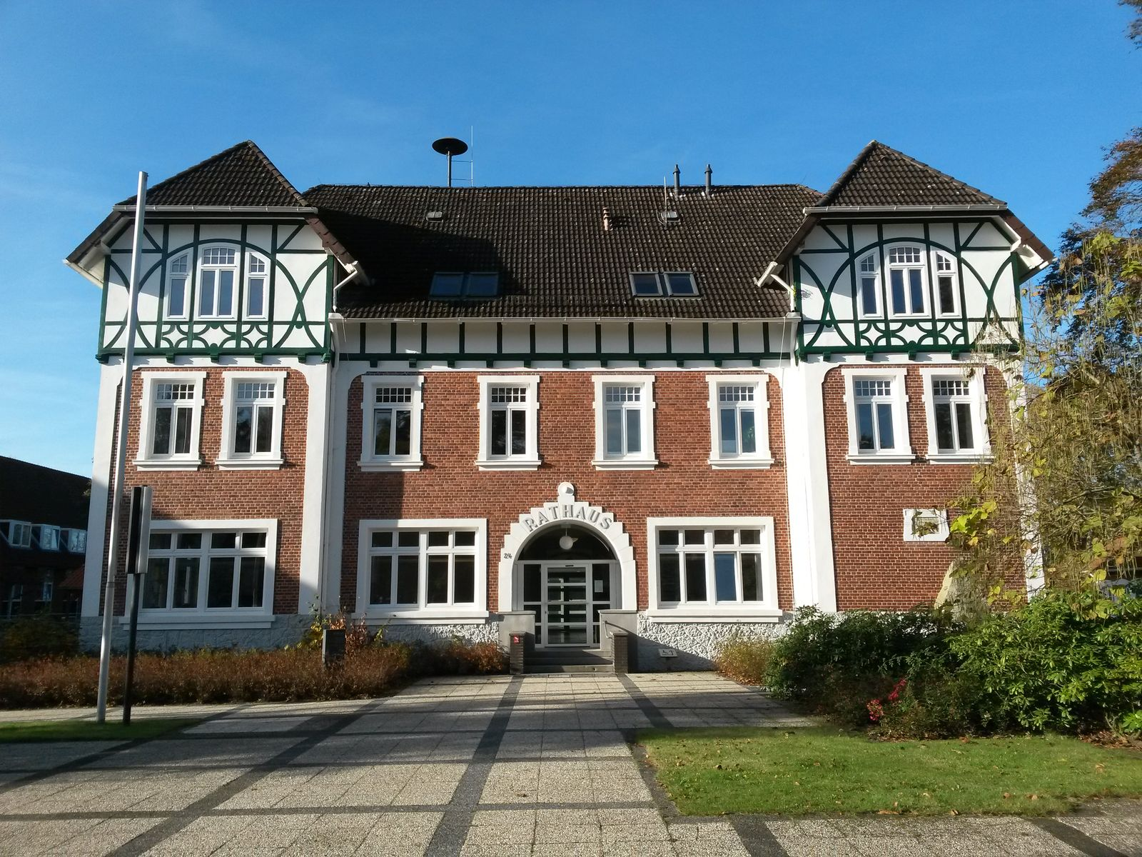 Tostedt townhall